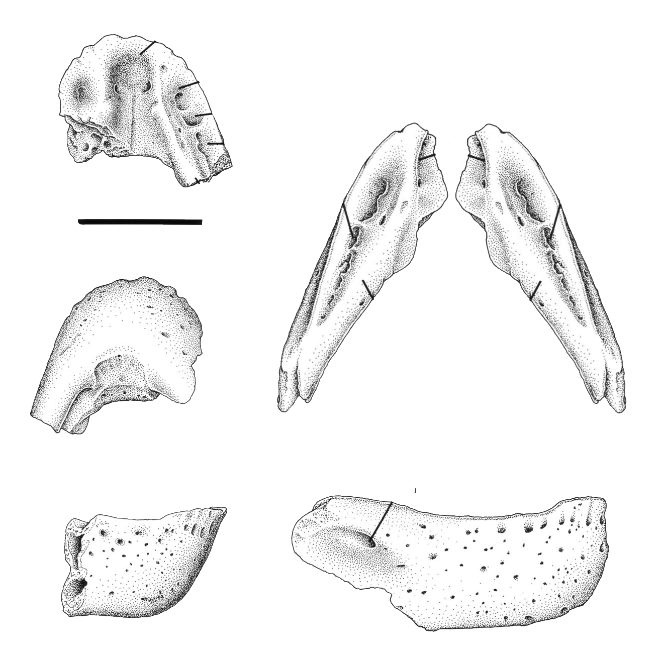 Caenagnathasia martinsoni Currie, Godfrey & Nessov, 1994. Mandibles of the holotype CMGP 401/12457 (left) and paratype CMGP 402/12457 (right). Mandibles in dorsal view, ventral view, and right lateral view. Paratype is copied, flipped and paired with the original on the right side.